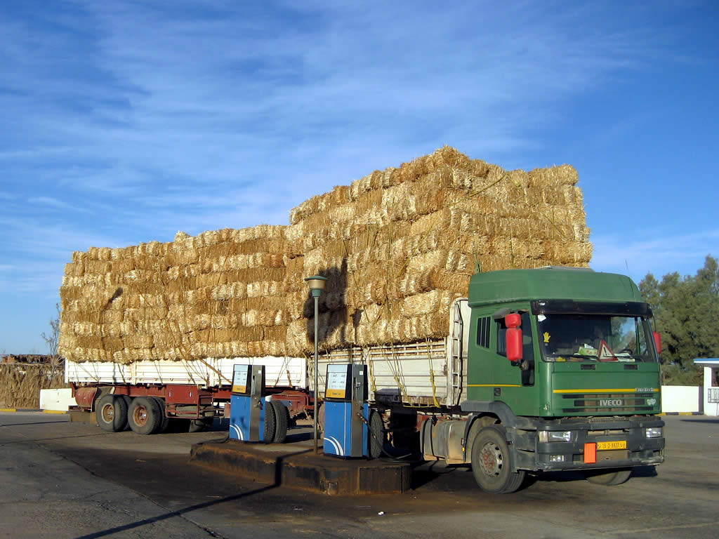 A truck hauling hay grown on irigated land in the Sahara.